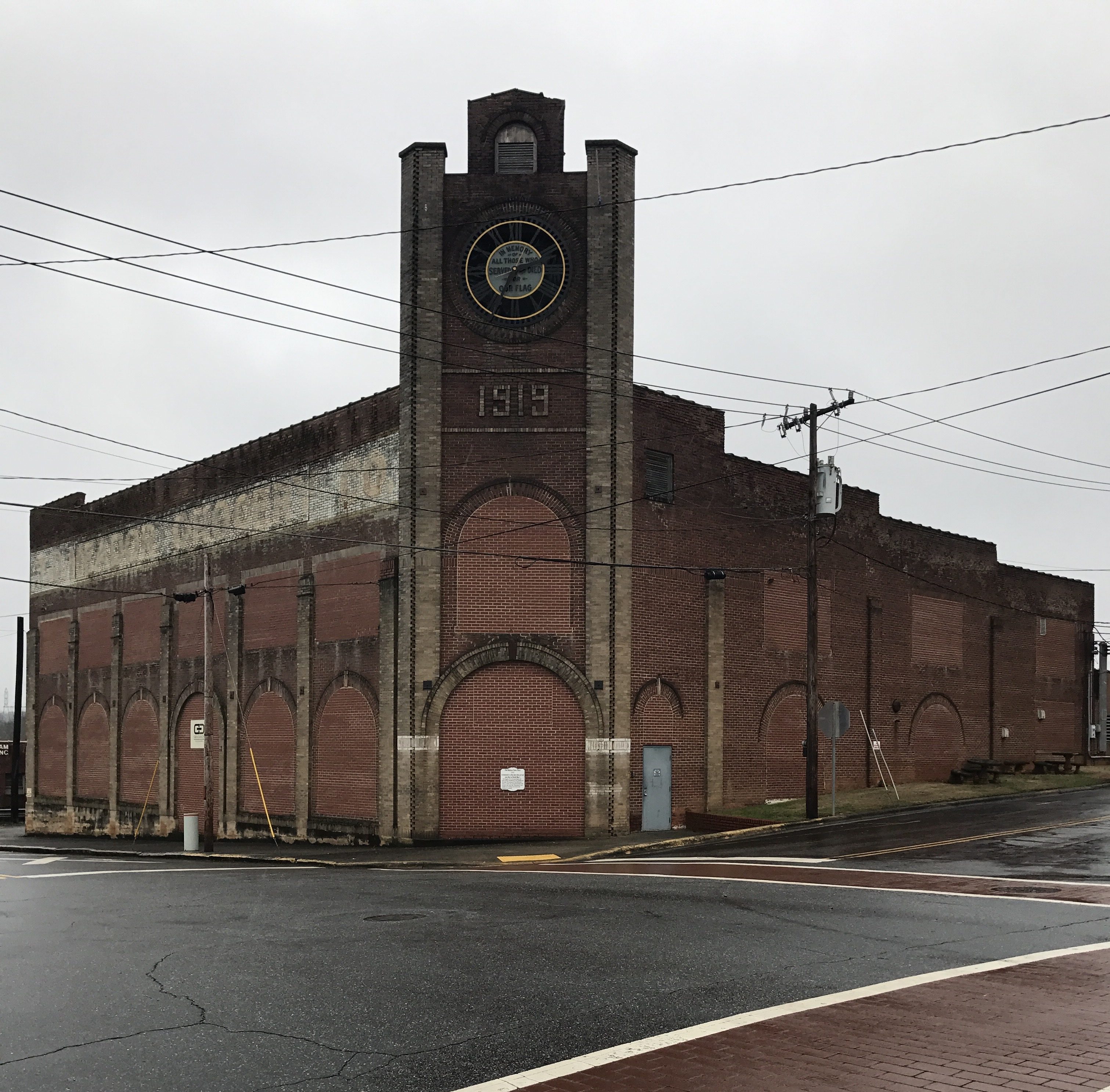 Clock tower at the corner of downtown Madison